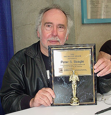 Peter S. Beagle with 2006 Inkpot Award